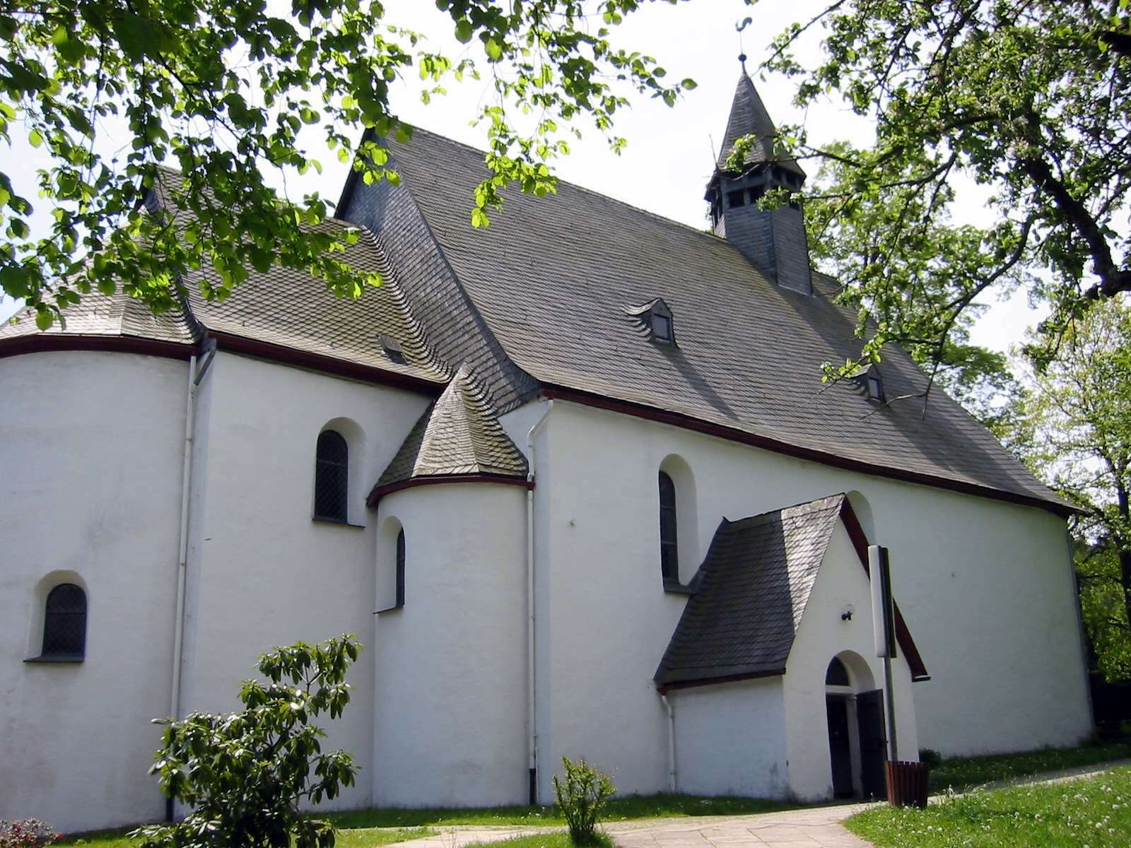 Raumland, Church